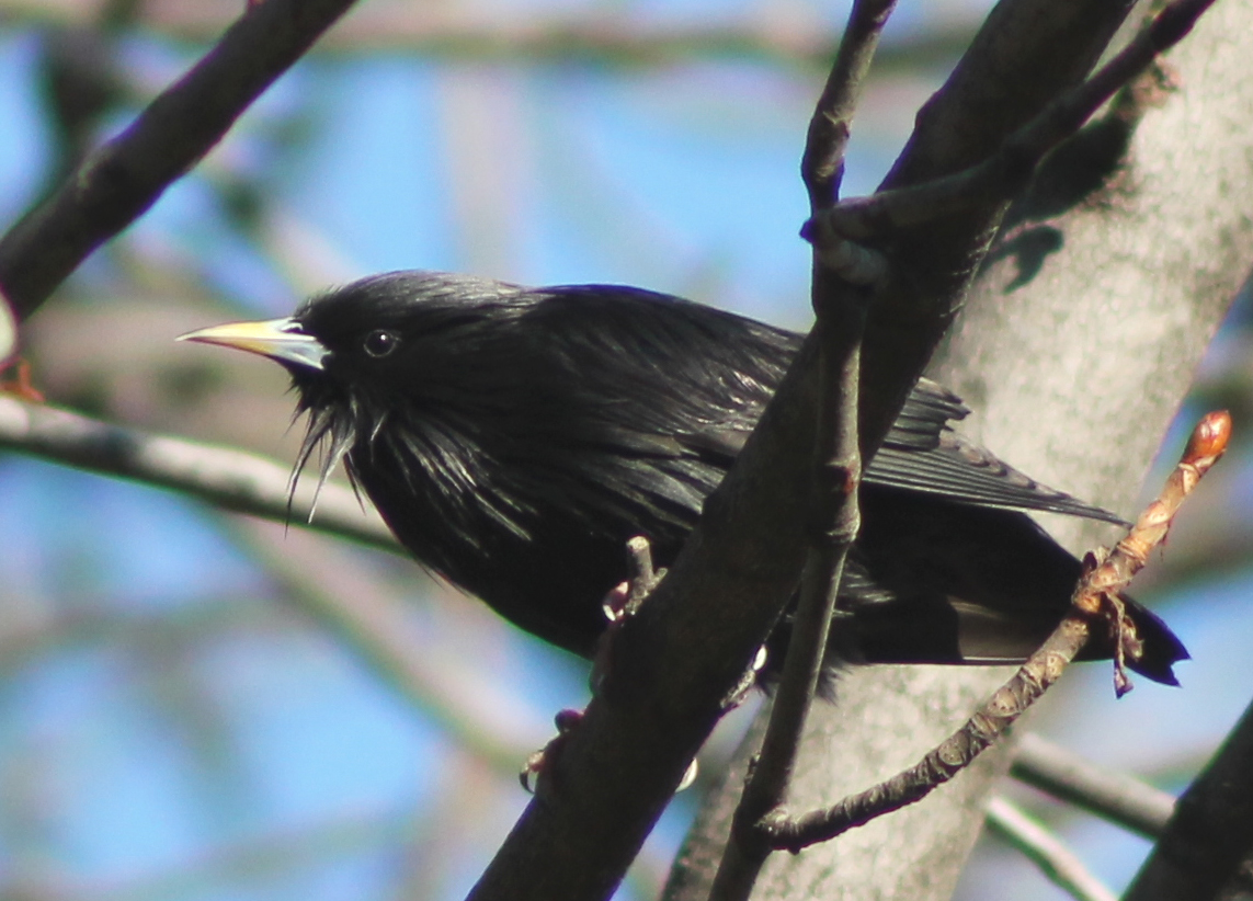 A Spotless Starling (Sturnus unicolor) in Retiro Park in Madrid (Spain).